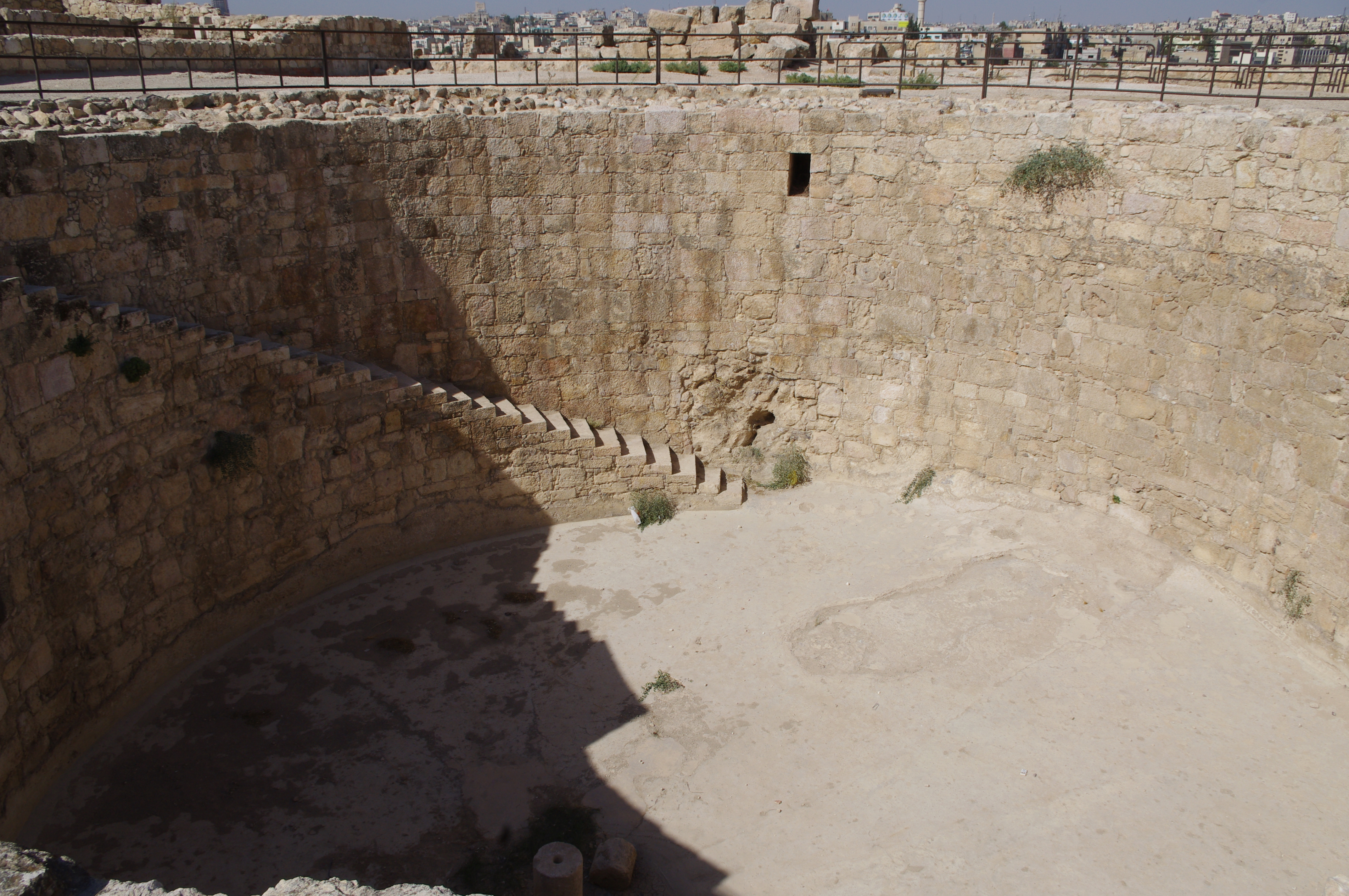 Then as now, water is central to life in Jordan. This cistern, called a Birka, was built around 730 AD to serve the needs of the Umayyad city that existed that that time. It is about 58 feet in diameter roughly the same depth. Built with 8-foot thick stone walls covered in waterproof plaster, this cistern was built to last -- and it has. It was designed and placed to collect and save water that ran off from the roofs of neighboring buildings -- a water conversation technique that is being "rediscovered" today in the USA and Europe.